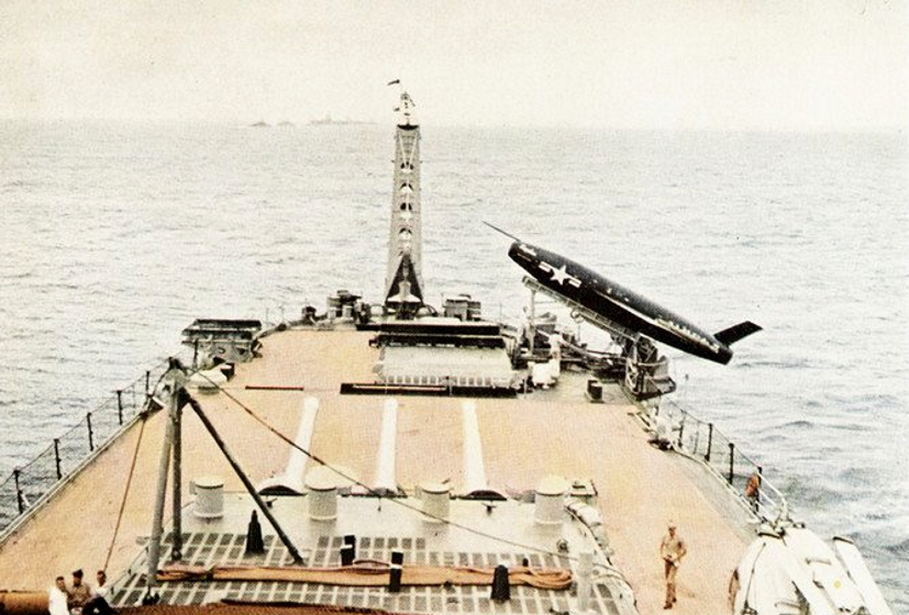 A SSM-N-8 Regulus cruise missile being readied for launch aboard the U.S. Navy heavy cruiser USS Toledo (CA-133), in 1958.